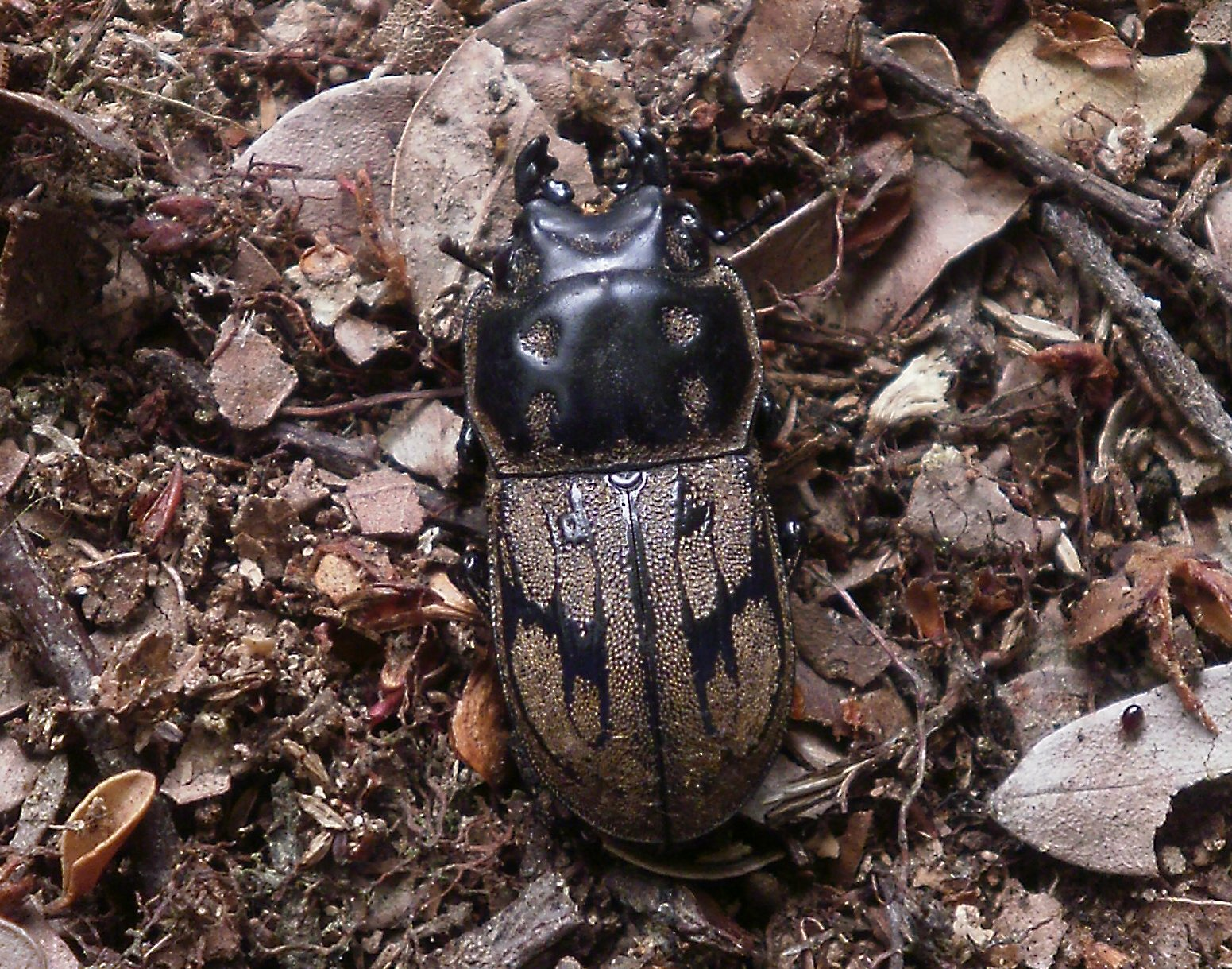 Paralissotes reticulatus, native reticulate stag beetle, pictured in bush in Upper Hutt, New Zealand.